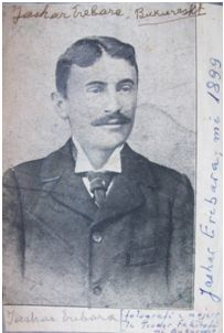 Jashar Erebara